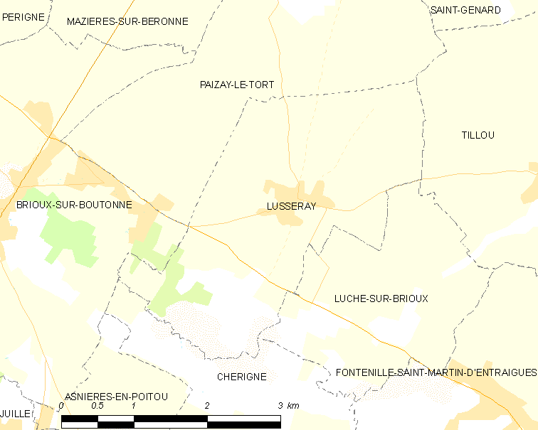 Map of French municipality Lusseray